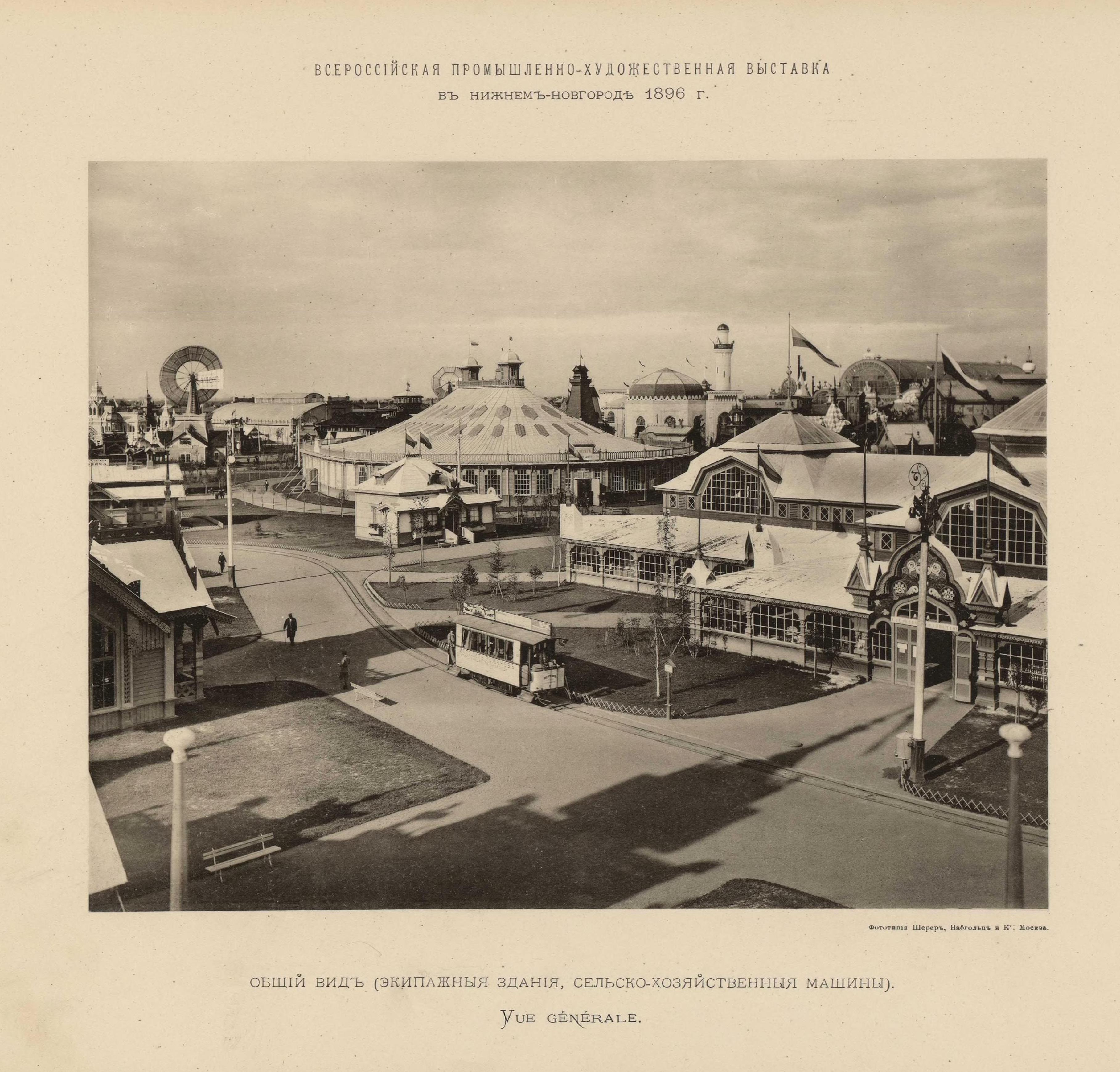 Oval pavilion - the world's first steel tensile structure by the great Russian engineer and scientist Vladimir Shukhov (1853-1939) in 1896. The All-Russia industrial and art exhibition 1896 in Nizhny Novgorod.